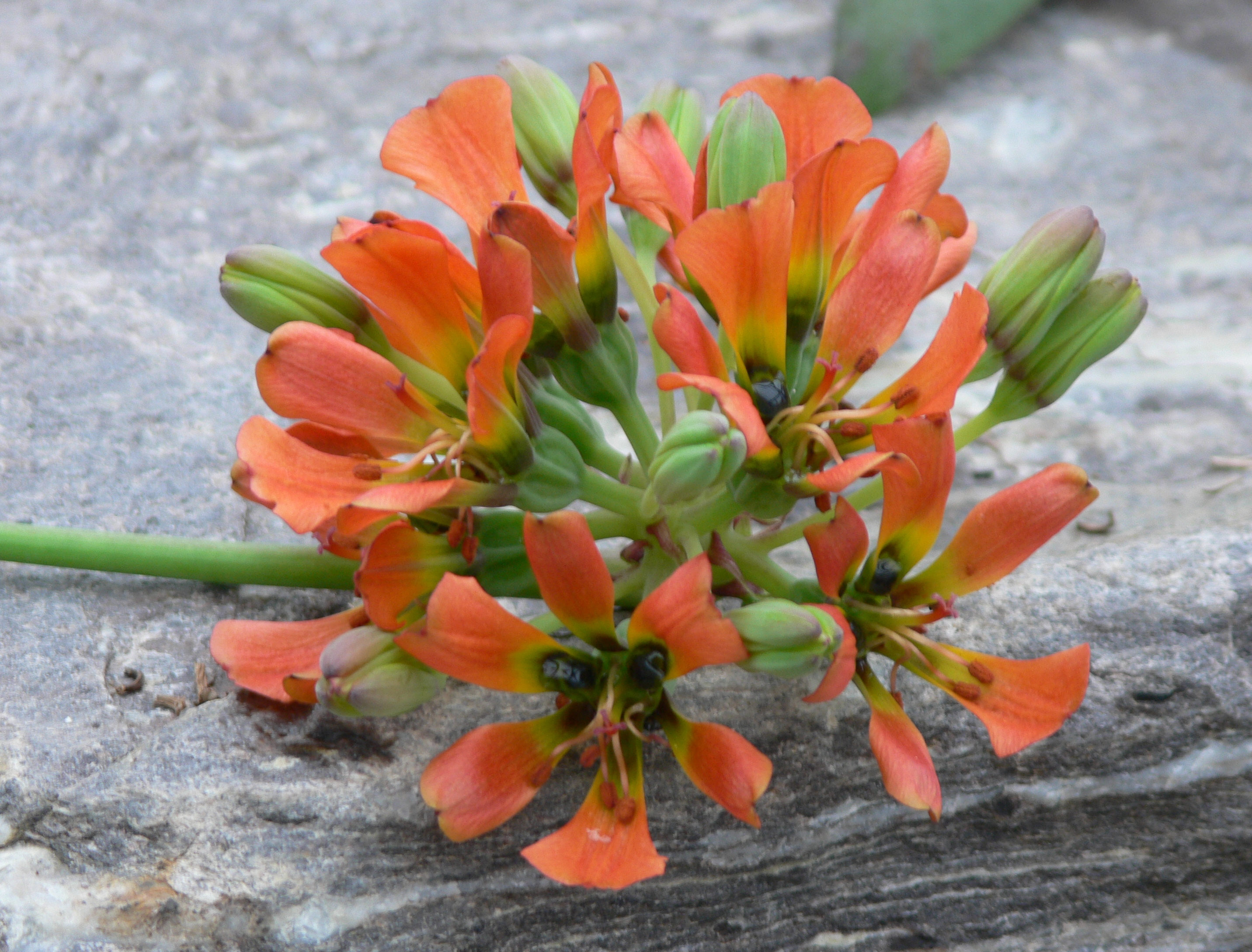 florescence of leontochir ovallei